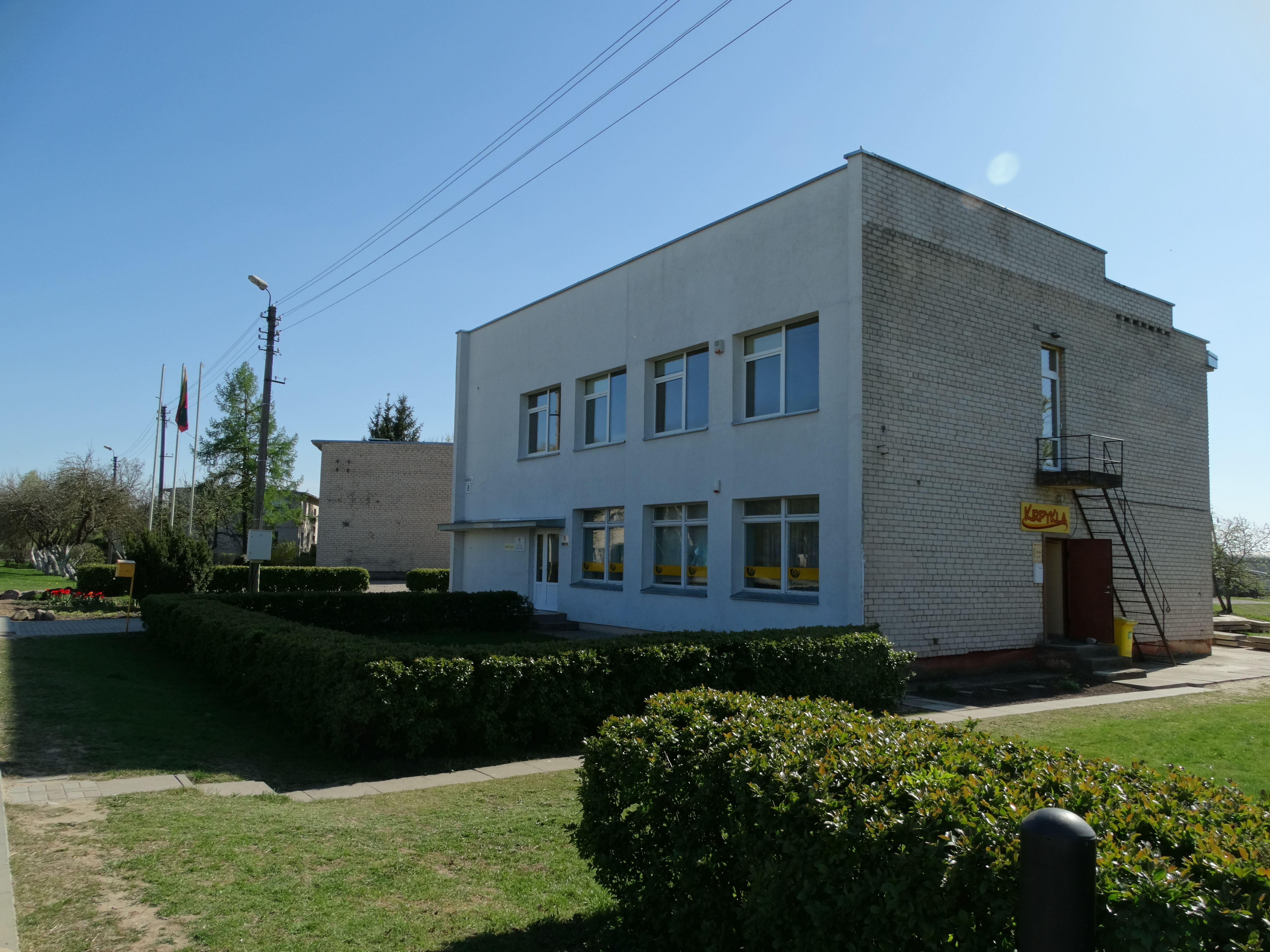 Upytė, eldership, Panevėžys District, Lithuania